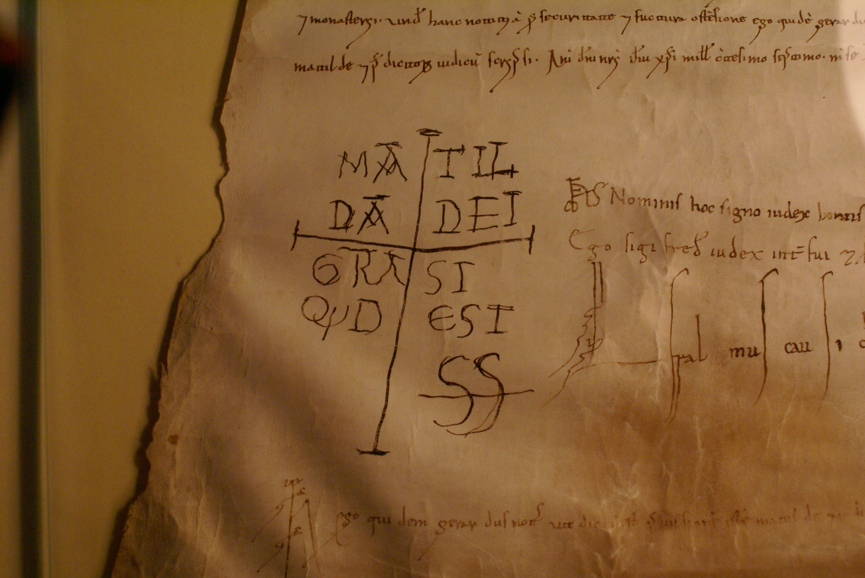 Signature autograph of Matilda of Tuscany on Notitia Confirmationis (Prato, June 1107). "Matilda, Dei Gratia Si Quid Est" (Matilda, who, if she is something, is for God's grace). The double S means "SubScripsi" ("I undersigned"), telling that the Countess has approved the document.